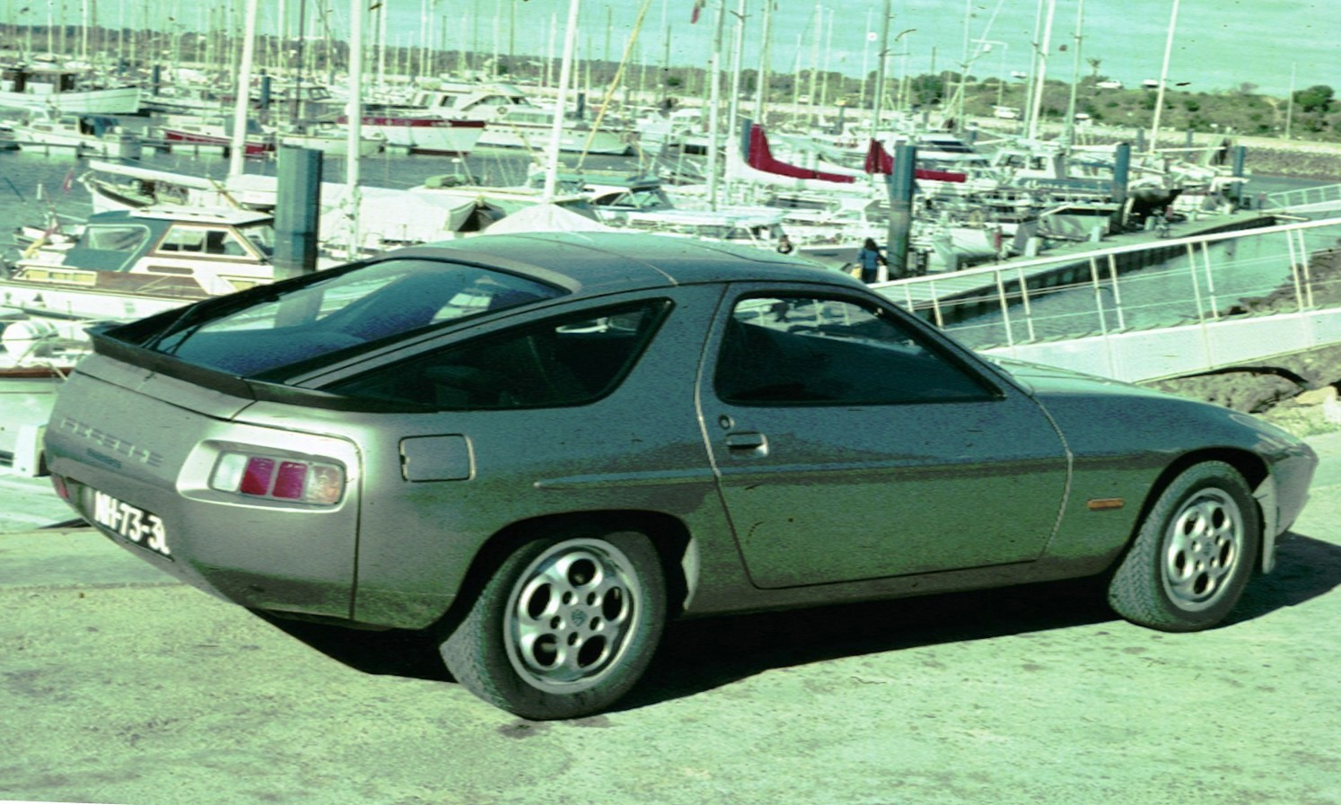 Porsche 928 rear three quarters